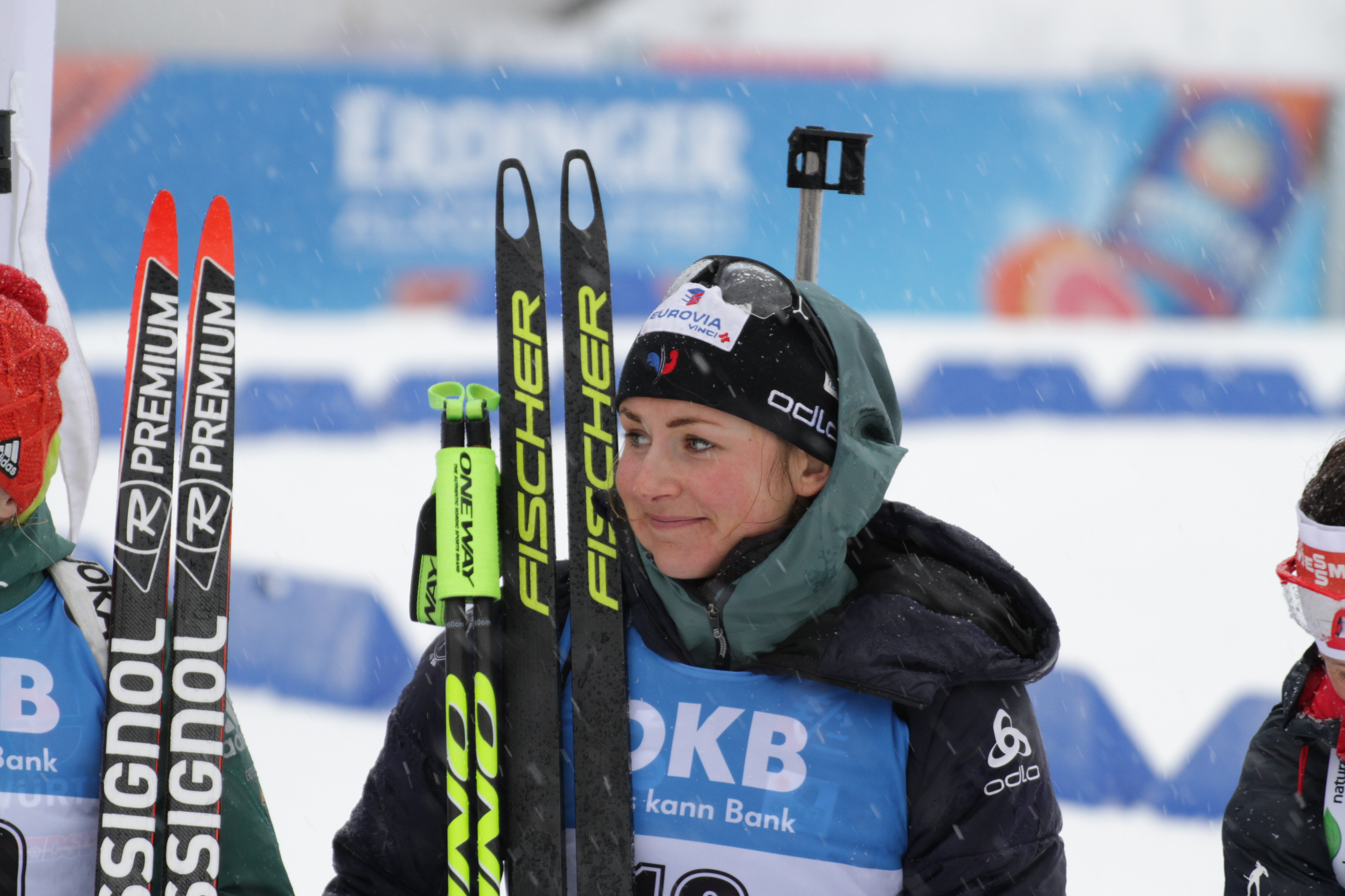 2018 Oberhof Biathlon World Cup - Sprint Women